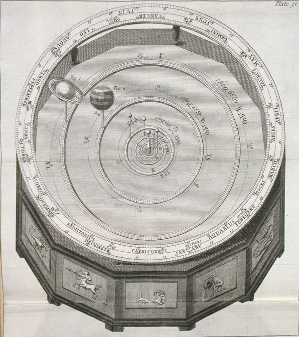 Planetarium in Course of experimental philosophy, 1734